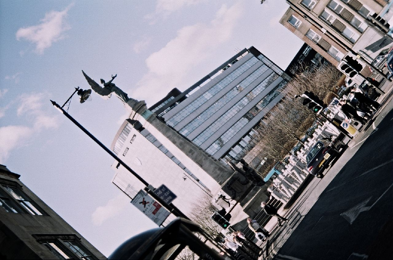 South Africa memorial dutch angle